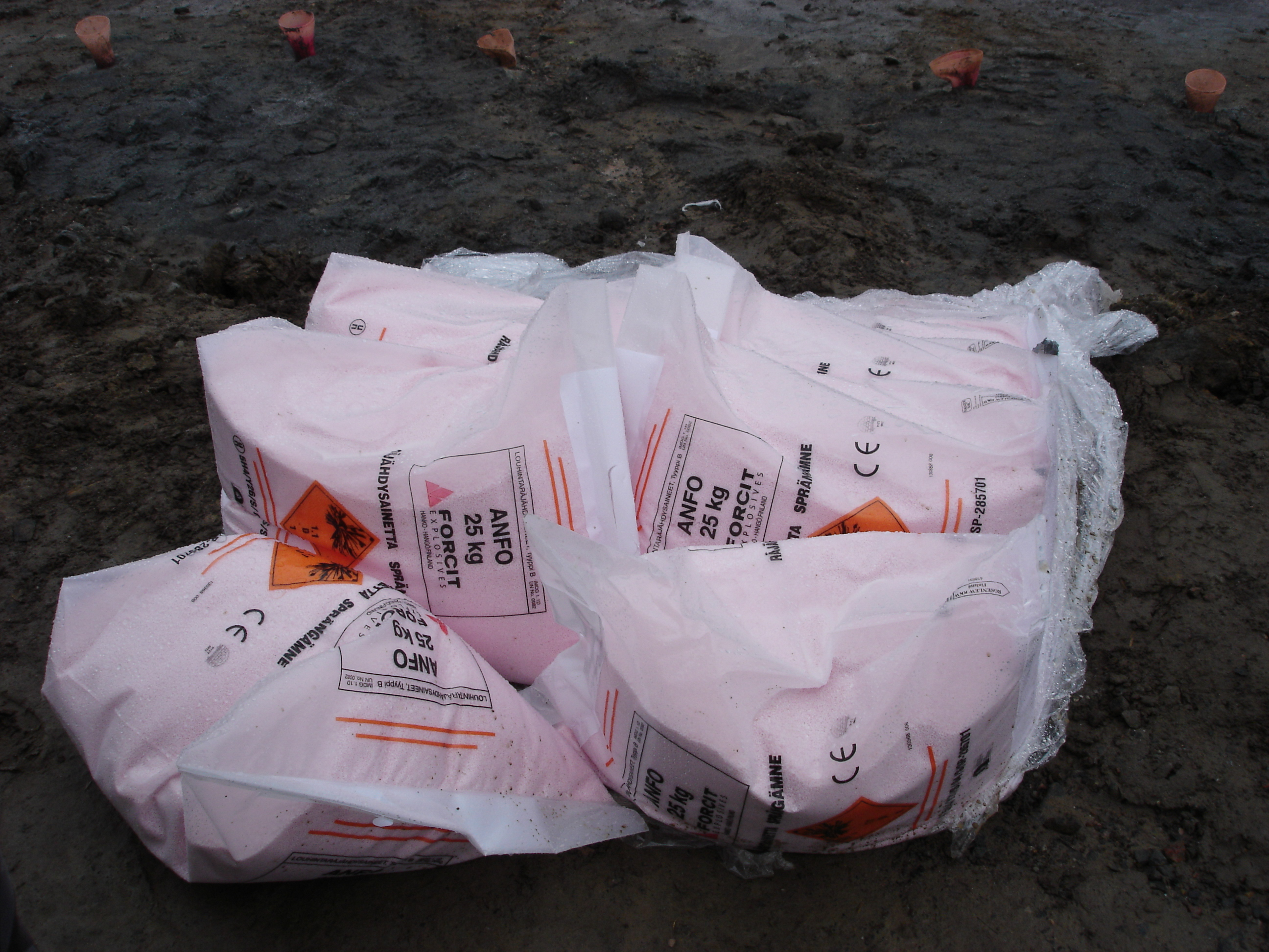 ANFO produced by Oy Forcit Ab